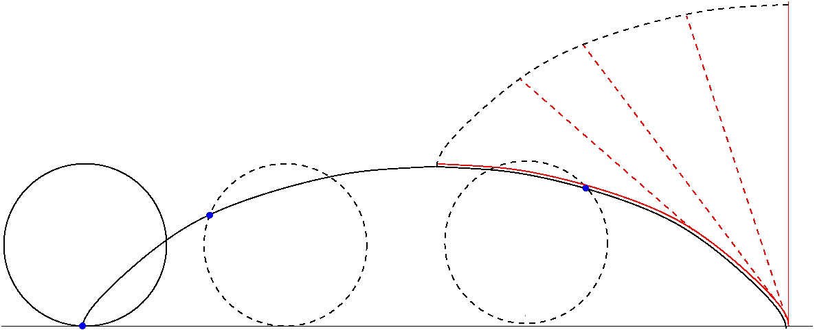 Visualisation of the generation of the evolute of the cycloid by mean of a tense wire